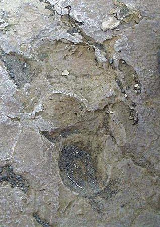 1790 Footprints — footprints in solidified ash from the 1790 eruption of Kilauea. From National Park Service web site, section on Hawaii Volcanoes National Park.